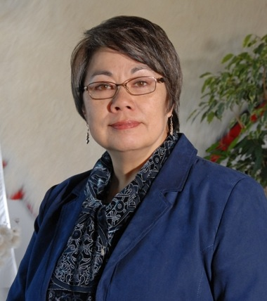 Premier of Nunavut Eva Aariak